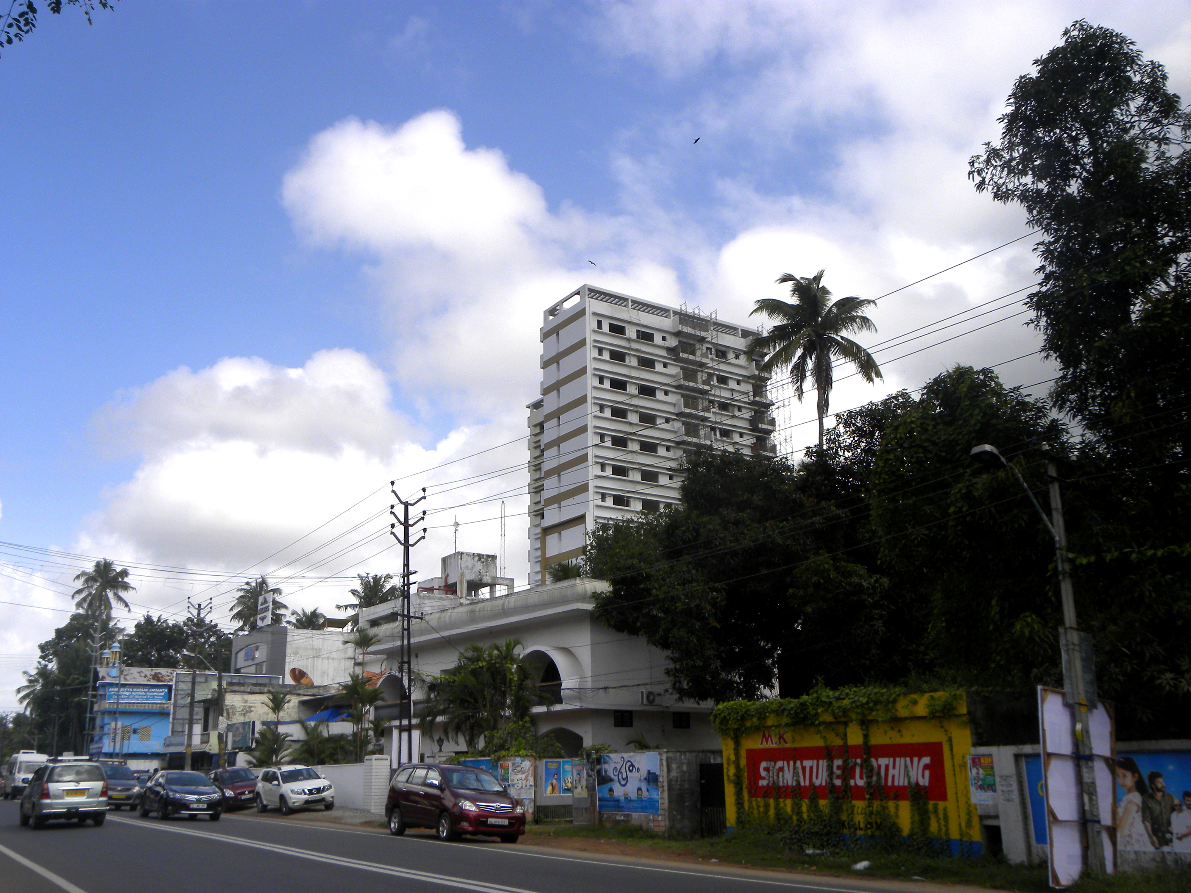 Polayathode is a major neighbourhood of Kollam city